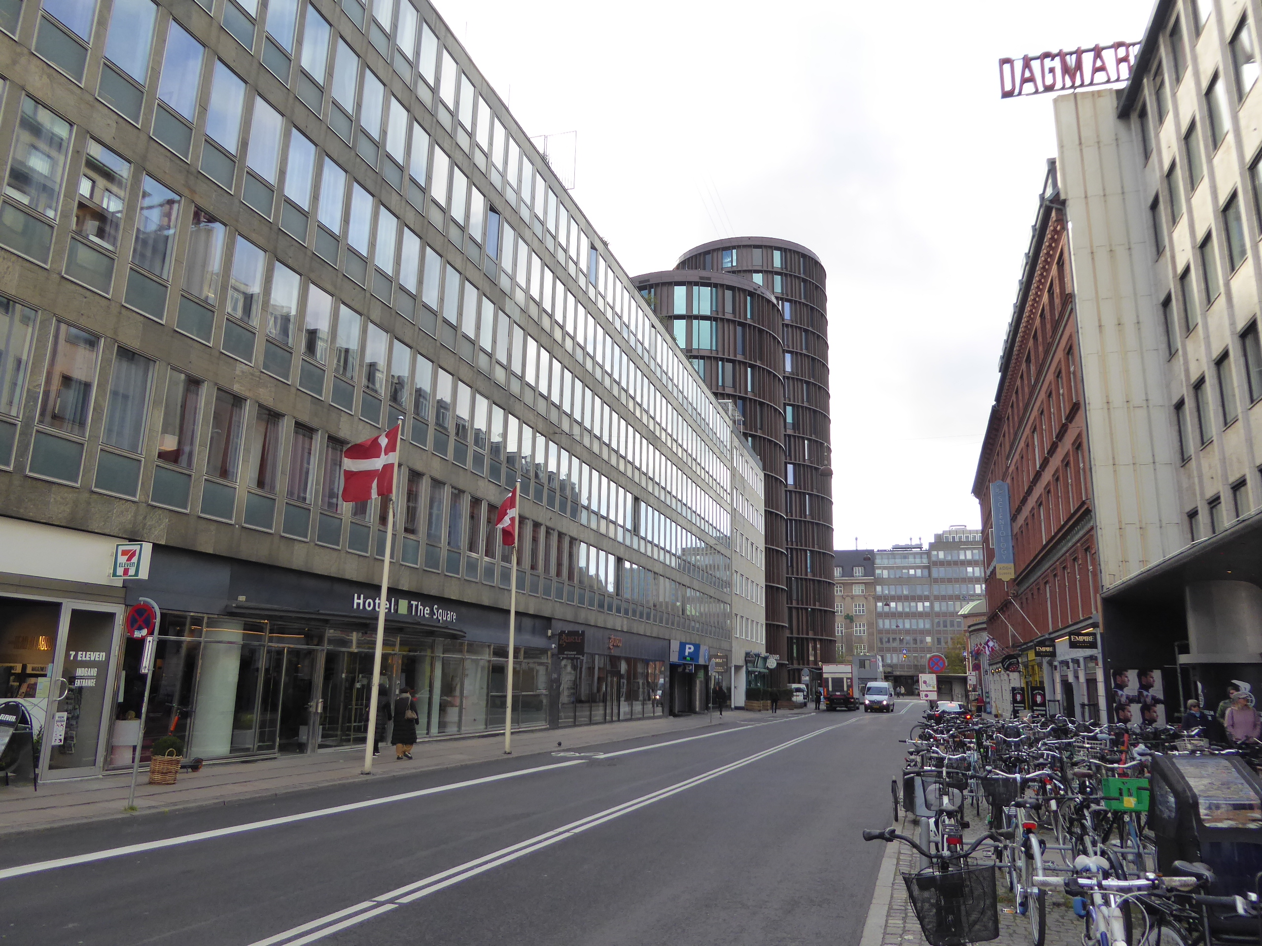 The street Jernbanegade in Vesterbro in Copenhagen. At the left the hotel The Square and in the background Axel Towers.